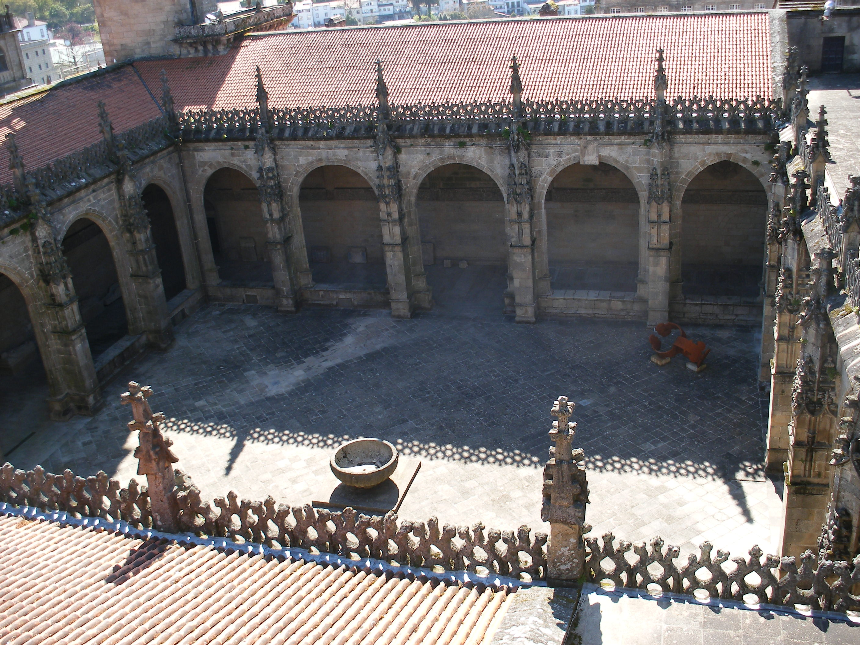 Cloister of Santiago de Compostela Cathedral viewed from the roofs of the own cathedral.